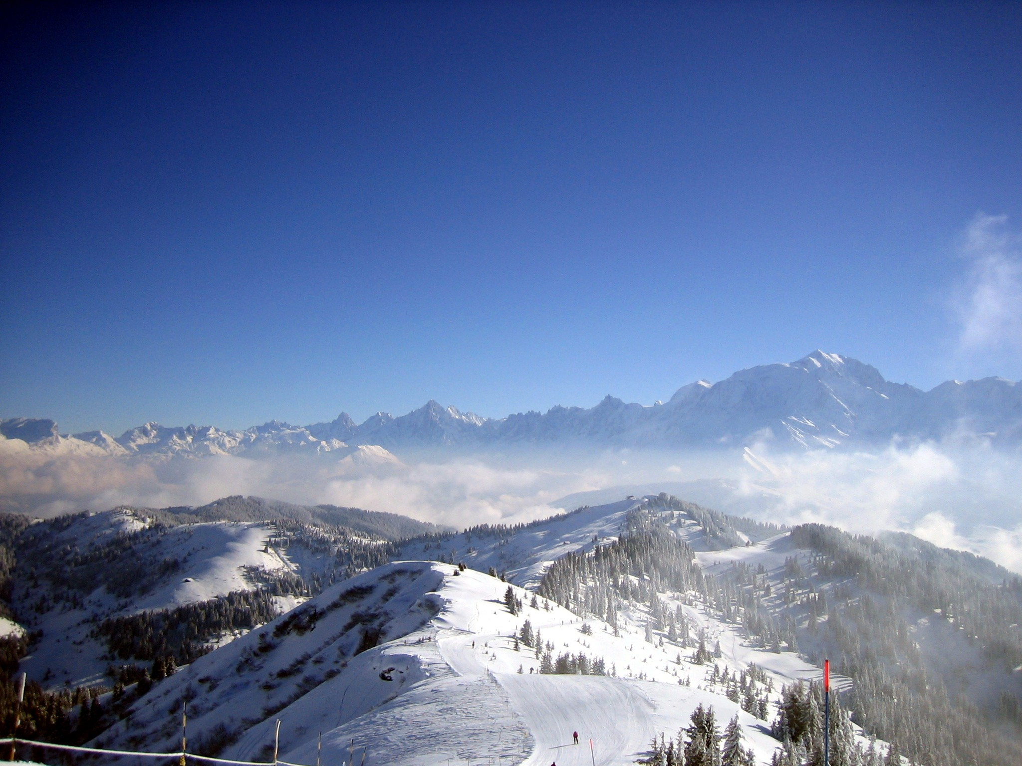 The Giettaz: The Mont Blanc to the head of Torraz